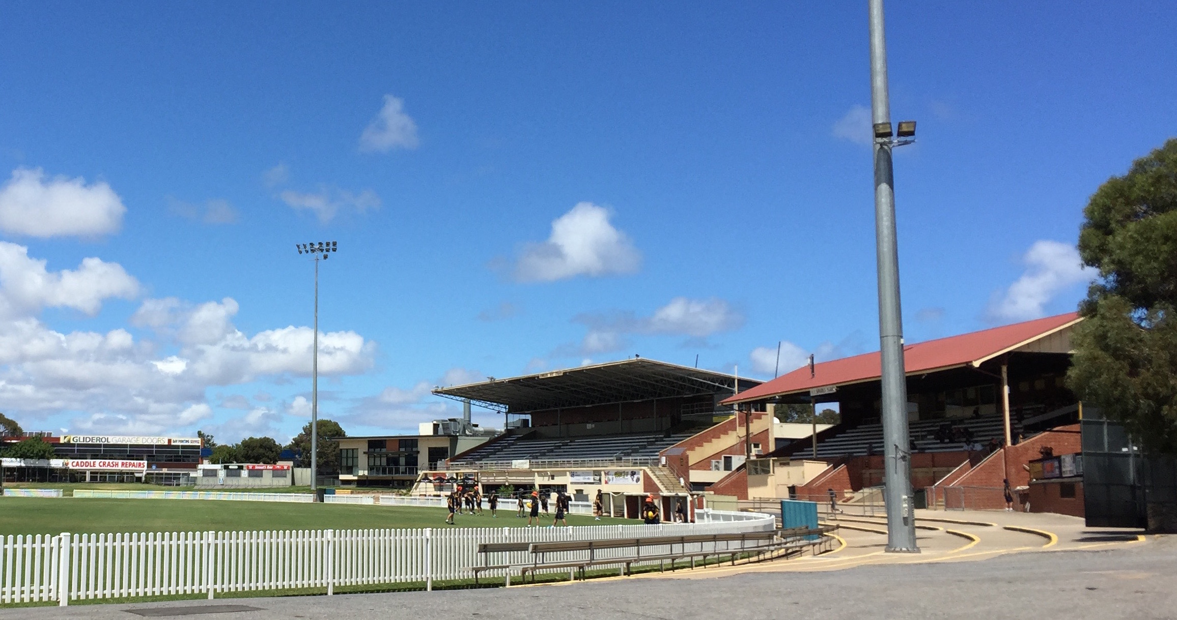 Photo of Glenelg Oval and grandstands.